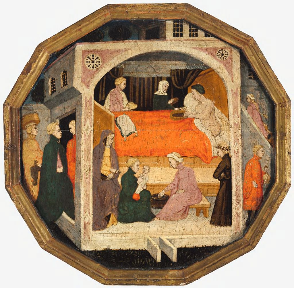 Master of Charles of Durazzo (Francesco di Michele) A Birth Scene (Desco da Parte), c. 1410 Harvard Art museum